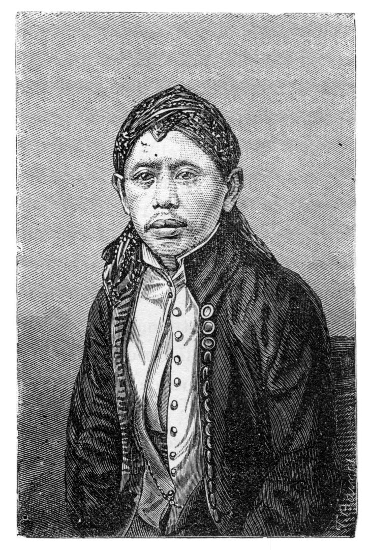 Caption reads "Portrait of Javanese Chief" (from a photograph)